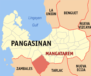 Map of Pangasinan showing the location of Mangatarem